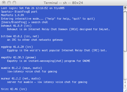 Screenshot of MacPorts interactive shell in the Mac OS X Terminal